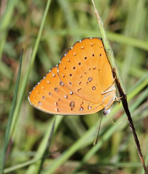 At Ithala Game Reserve, KwaZulu-Natal, South Africa